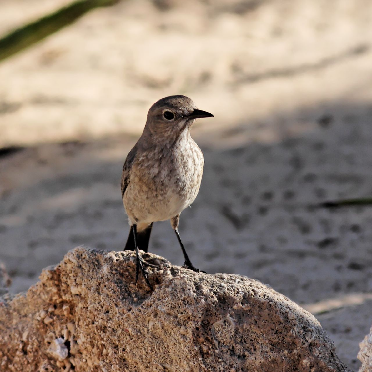 Littoral Rock Thrush Monticola imerina erythronotus (syn. Pseudocossyphus imerinus erythronotus)